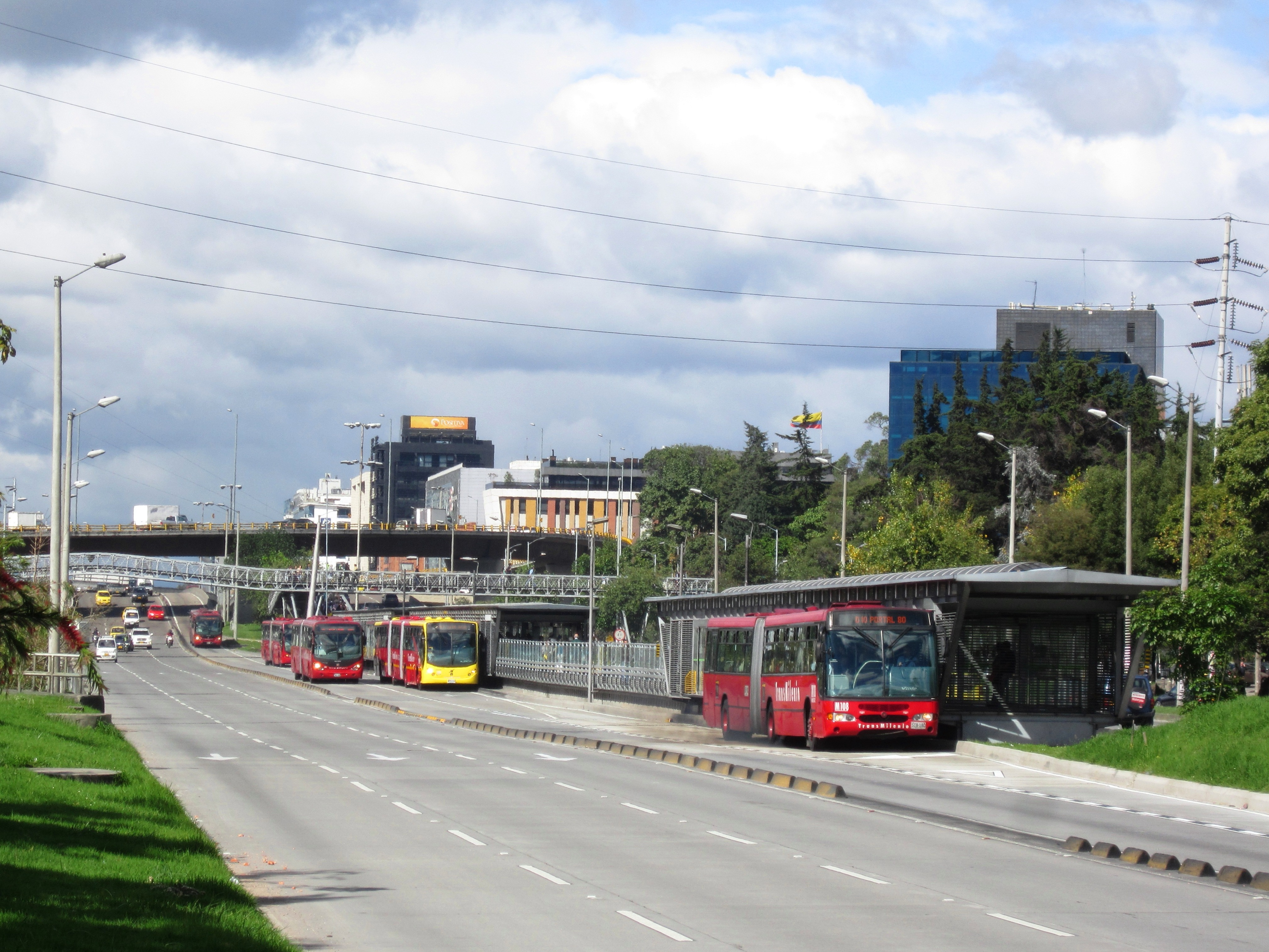 Bogotá